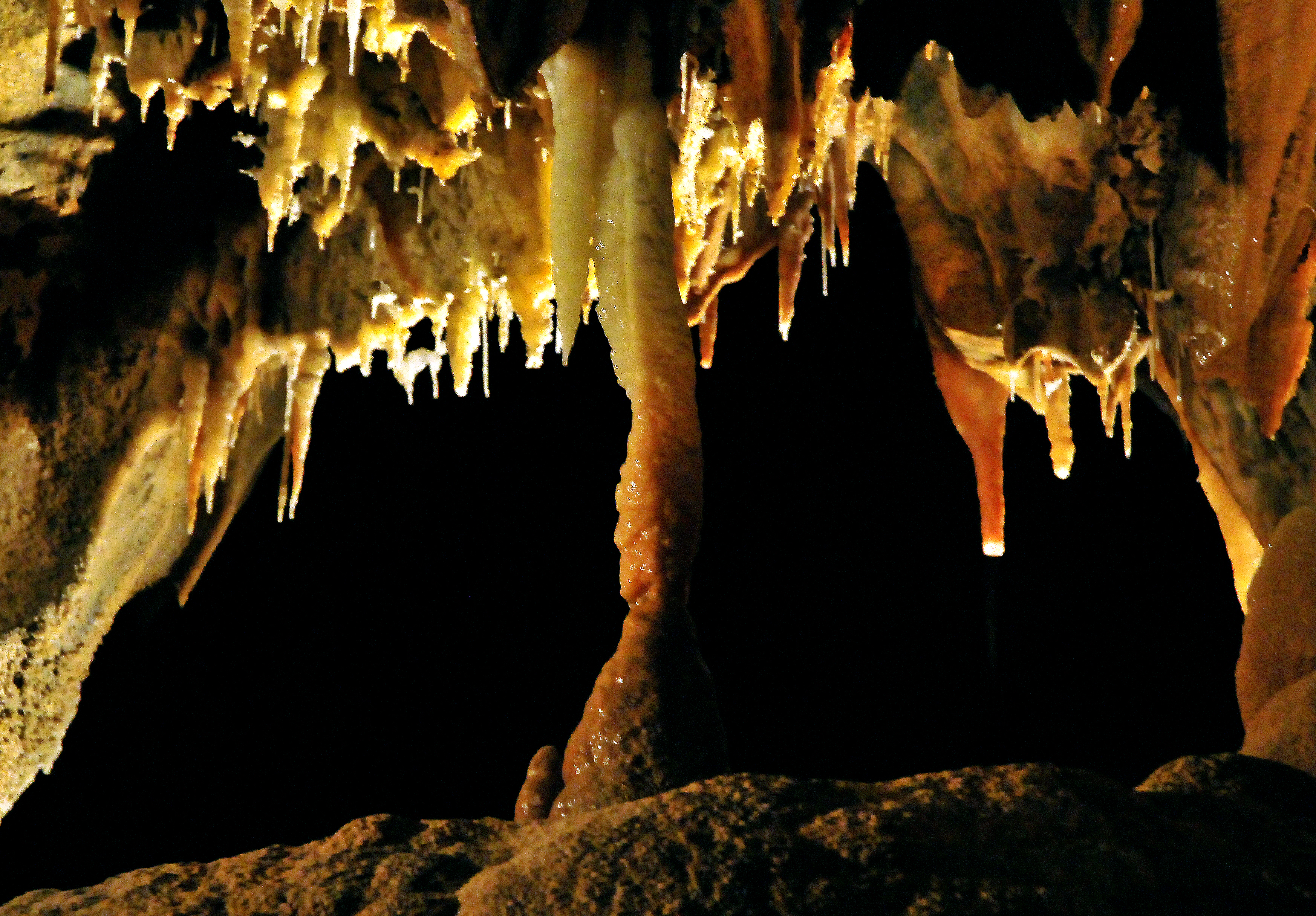 Speleothems (stalactites and a small column) at the Jenolan Caves [Binoomea], Blue Monuntains, New South Wales, Australia